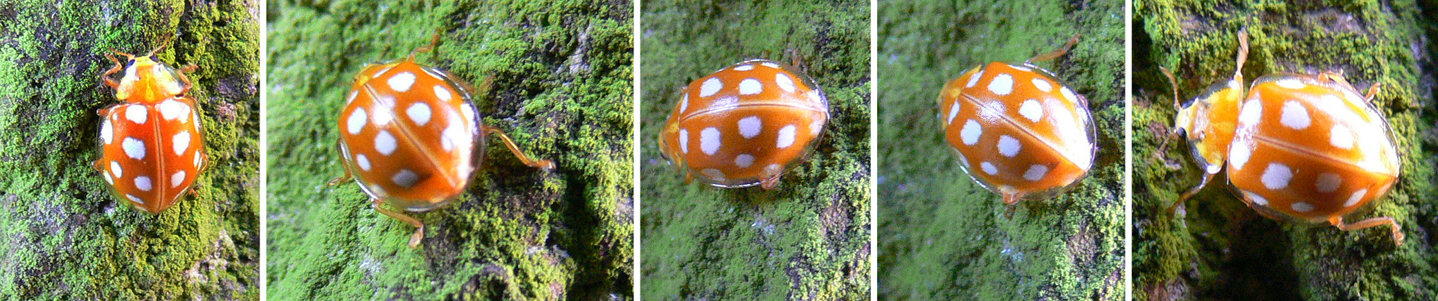 16-Spot Orange Ladybird, in winter. Lille, Parc de la Citadelle.